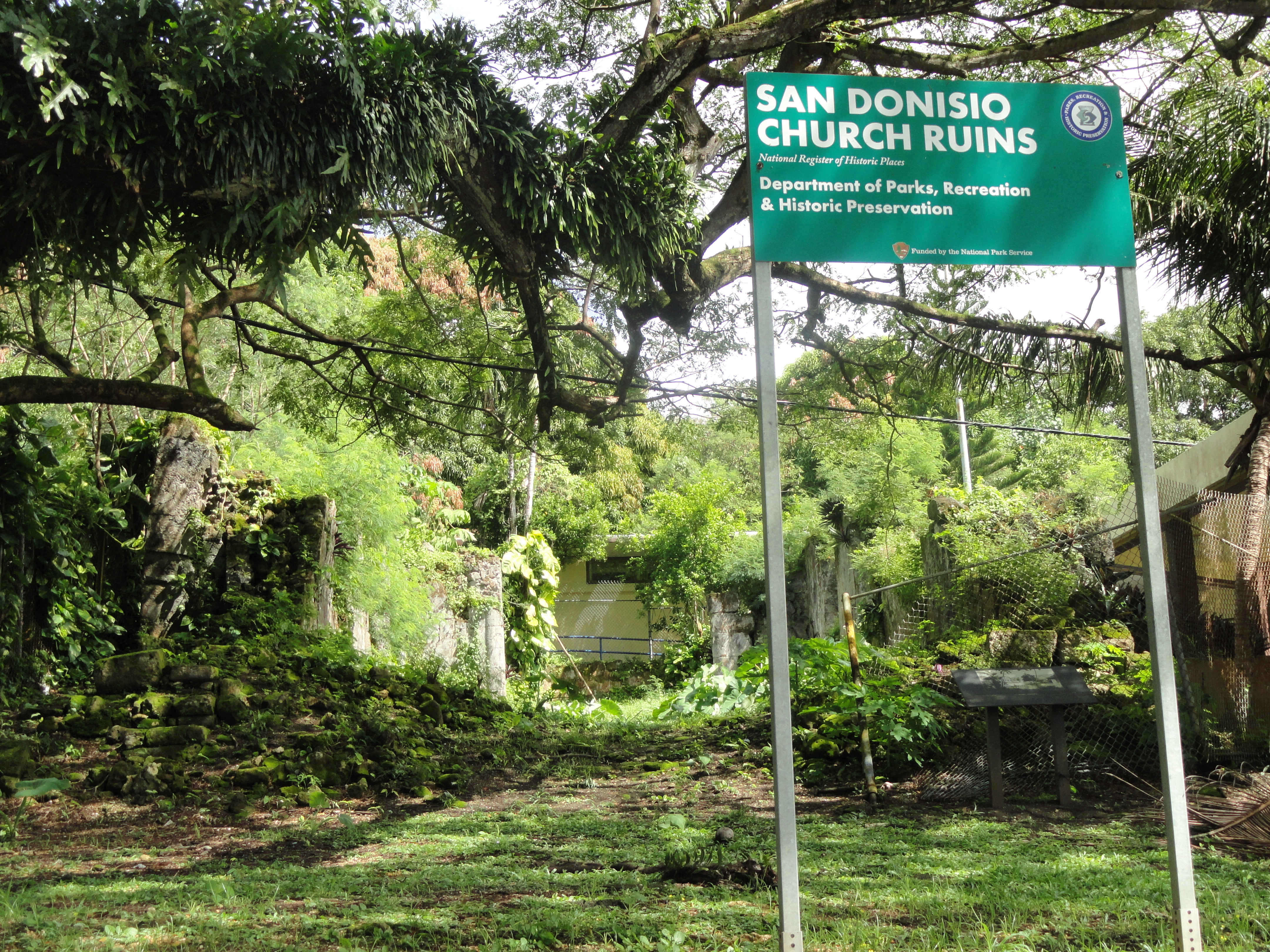 San Dionisio Church Ruins, Umatac, Guam, USA. Listed on the National Register of Historic Places.